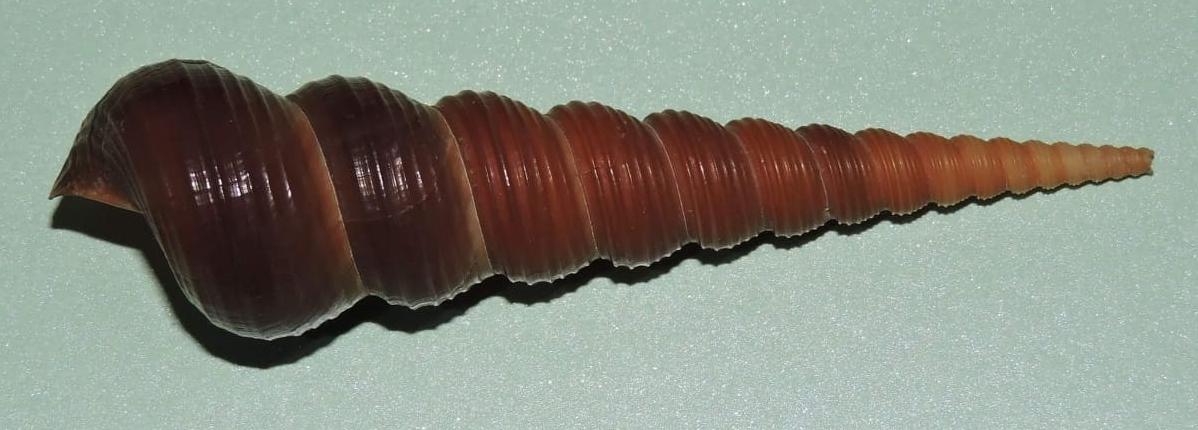 Seashell of Turritella terebra (Linnaeus, 1758)[1] from Indo-Pacific coasts.